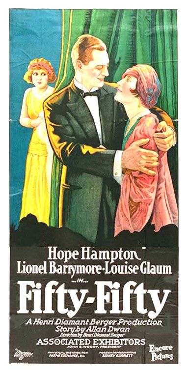 Poster for the American drama film Fifty-Fifty (1925). A renewal search was done in both film and artwork for the years 1952 and 1953. There were no listings for the film's title in film and no listings for Morgan Litho Company (printed the poster) or Associated Exhibitors in artwork. There's no evidence of continuing copyright on the film or related materials.